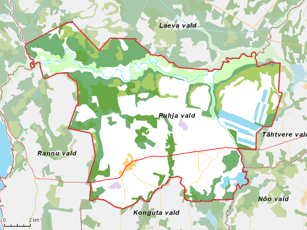 Map of municipality in Estonia